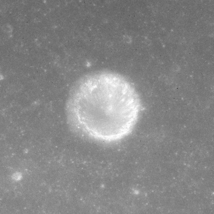 Smithson, Mare Fecunditatis, on the moon. Camera Altitude is 121 km, Sun Elevation is 71°.